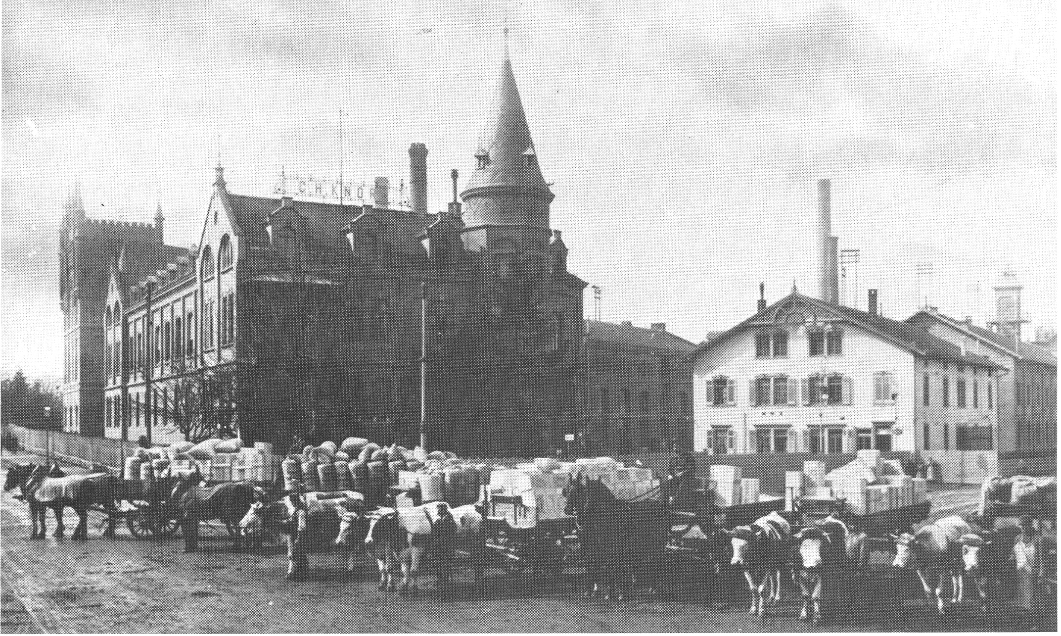 Heilbronn